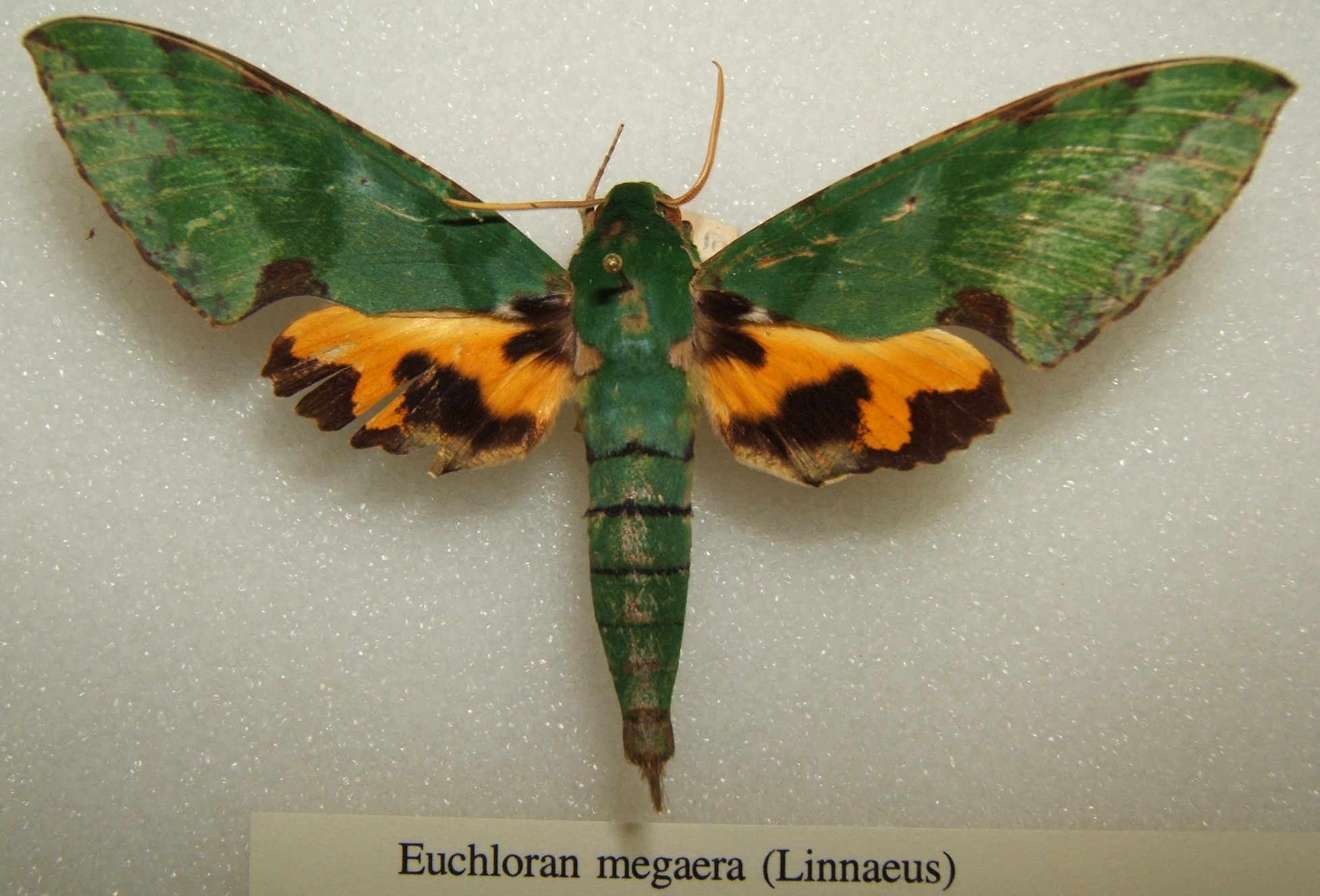 Euchloron megaera adult taken by Shawn Hanrahan at the Texas A&M University Insect Collection in College Station, Texas.